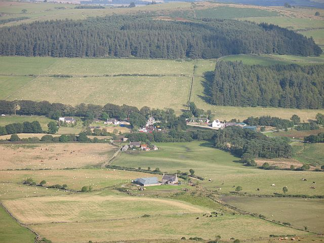 Glenbarry As seen from the summit of Knock Hill.